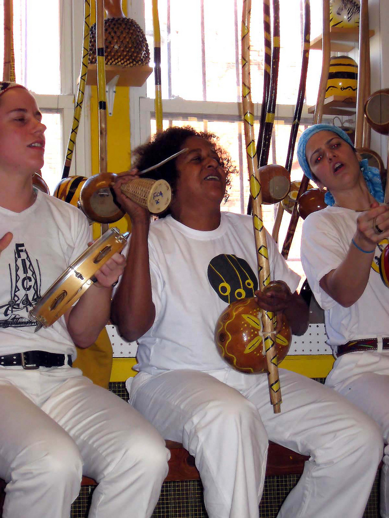 Capoeira Angola - Mestra Janja 10th Annual FICA Women's Conference 2008 There are some reasons to suspect the woman in the middle playing berimbau is Mestre Janja from the Nzinga group. Photo was taken 9 march 2008 in Washington DC. Tho the left is a woman playing pandeiro.